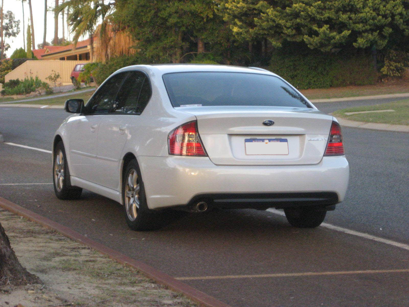 Subaru Liberty 2.0i (BL5), photographed in Perth, Western Australia.